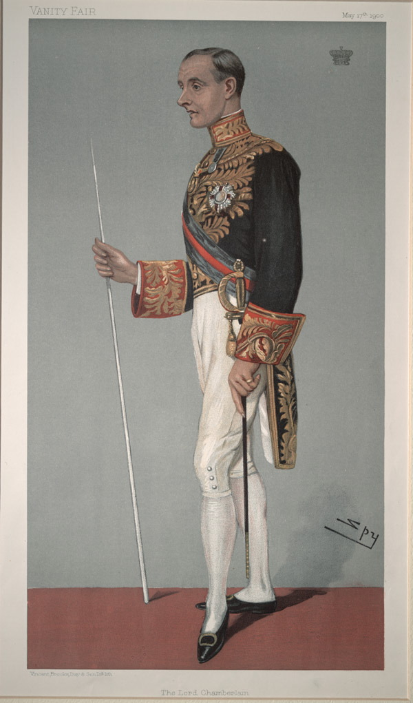 Statesmen No. 724: Caricature of Earl of Hopetoun. Caption read "The Lord Chamberlain".